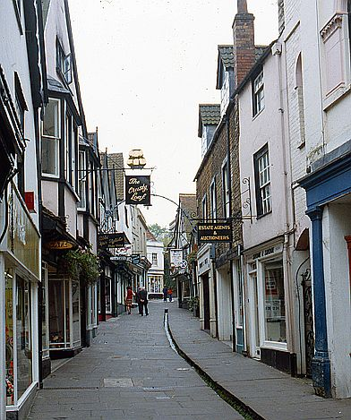 Cheap Street, Frome